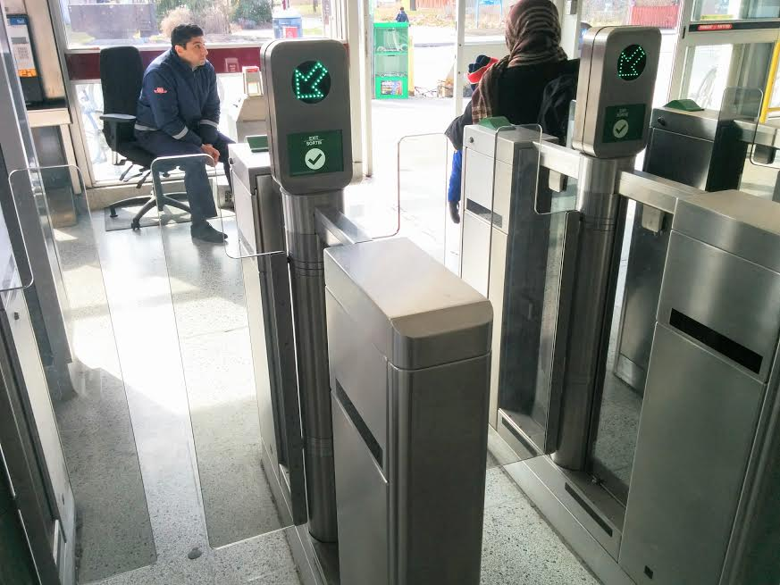 New TTC Faregates